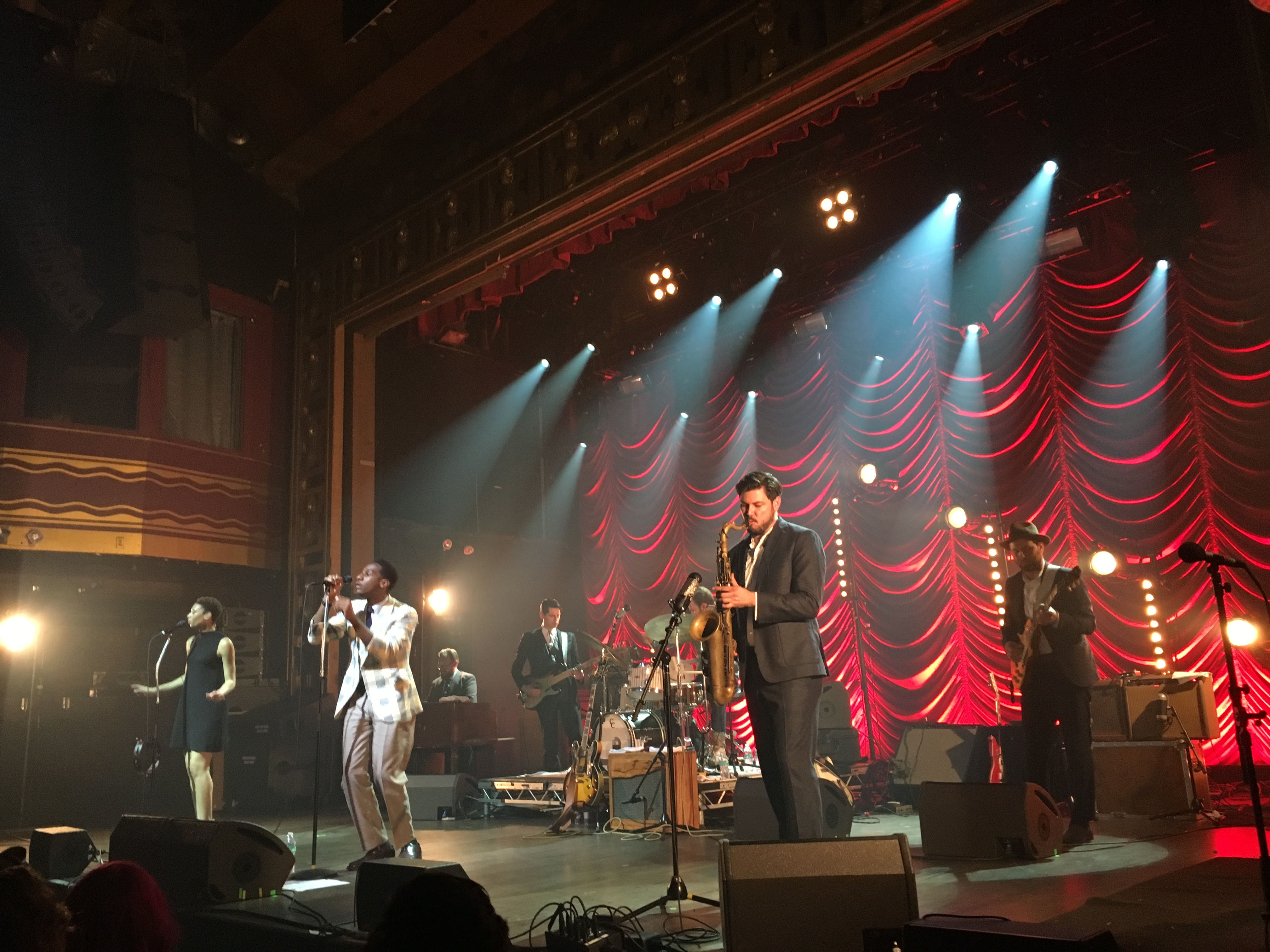 Leon Bridges at Webster Hall, 21 October 2015